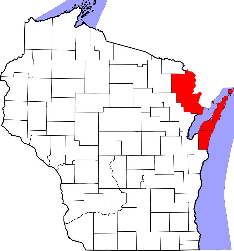 Wisconsin Senate District 1 boundaries as of 1892 redistricting, composed of Door, Kewaunee, and Marinette counties